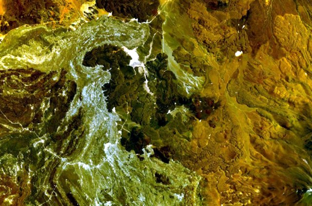 The dark-colored lava flows and cinder cones at the center of this NASA Landsat image (with north to the top) is El Negrillar. This group of cinder cones and compound andesitic lava flows of Quaternary age, also known as Negros de Aras, lies about 20 km north of Socompa volcano. The lighter-colored area on the left side of the image abutting El Negrillar flows on the west is part of the major Holocene debris avalanche from Socompa volcano.